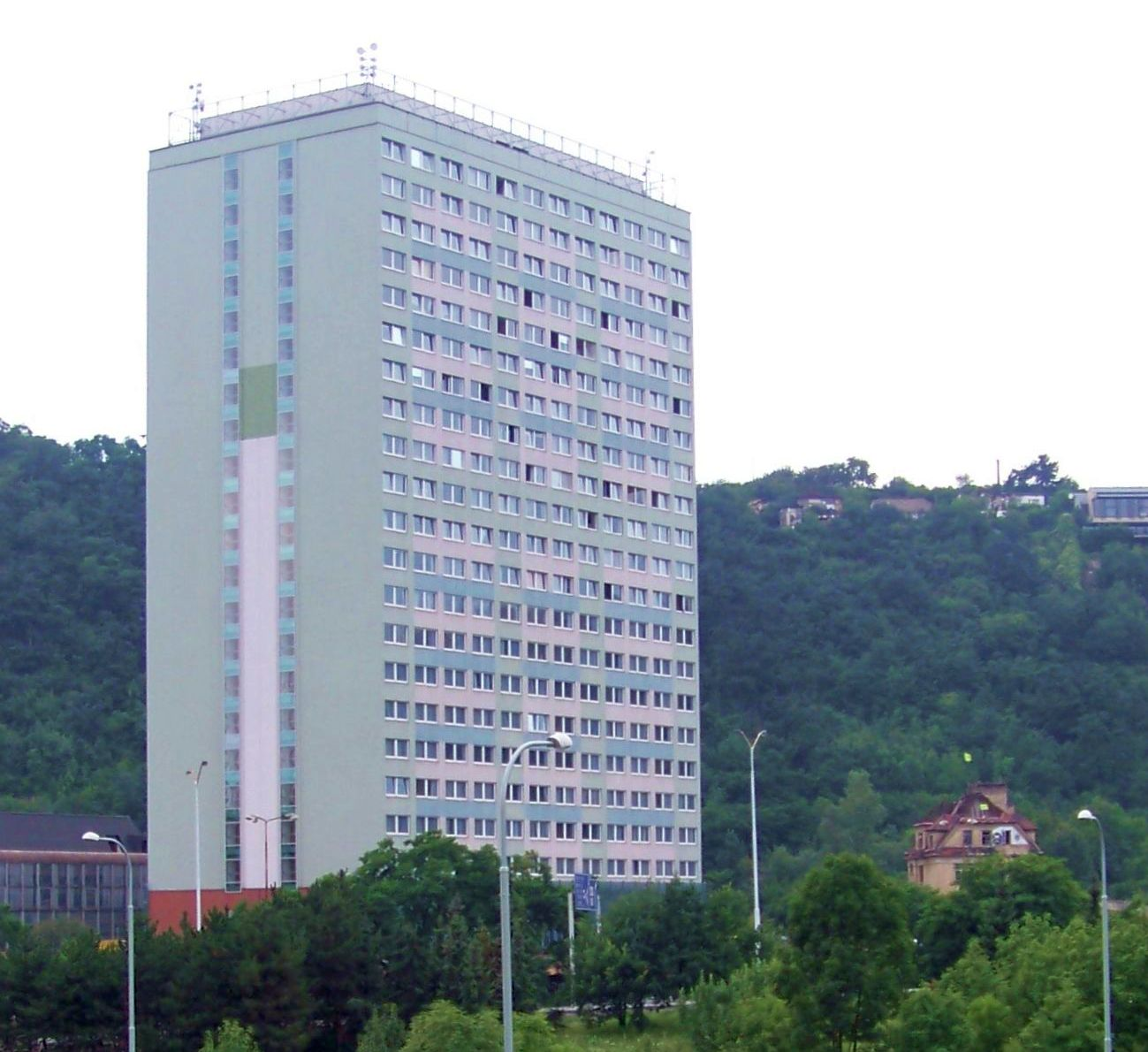 Libeň, Prague, the Czech Republic. Student's hostel of 17-th November and squat of Milada Villa.